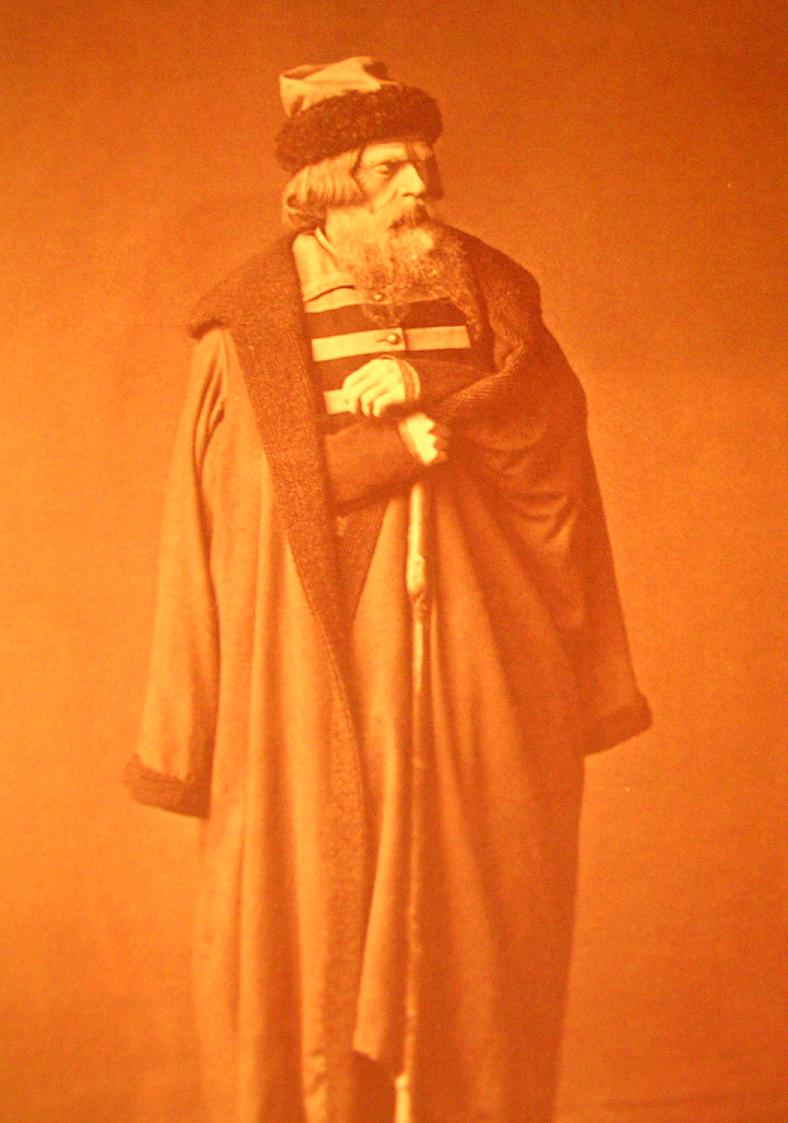 Photo of Russian opera singer Vladimir Vasiliev (Vasiliev the 1st; 1828-1900) in opera "Nizhegorodtsy" by E. Napravnik